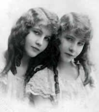 Madeline and Marion Fairbanks (1914). Photo courtesy of Thanhouser Film Corp.